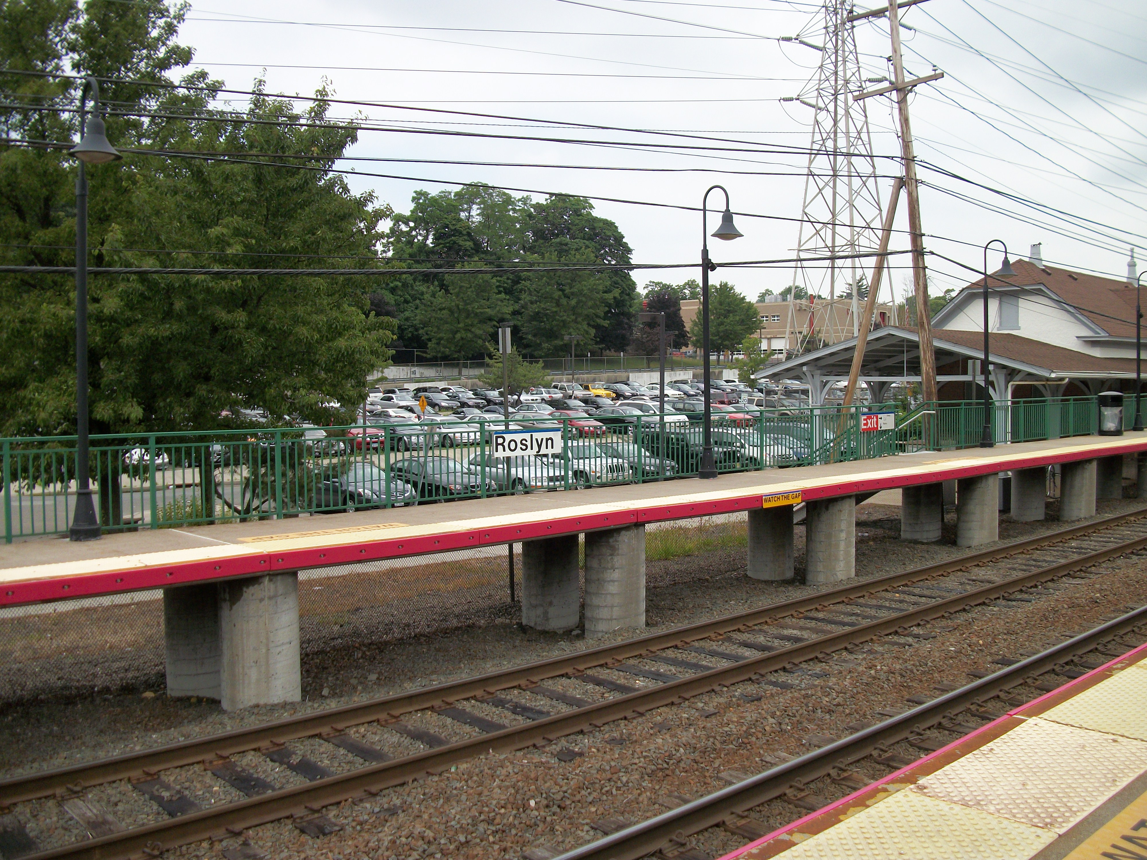 An image of Roslyn (LIRR station) from a platform across the tracks(the Oyster Bay-bound platform), which includes the parking lot, and a power line.